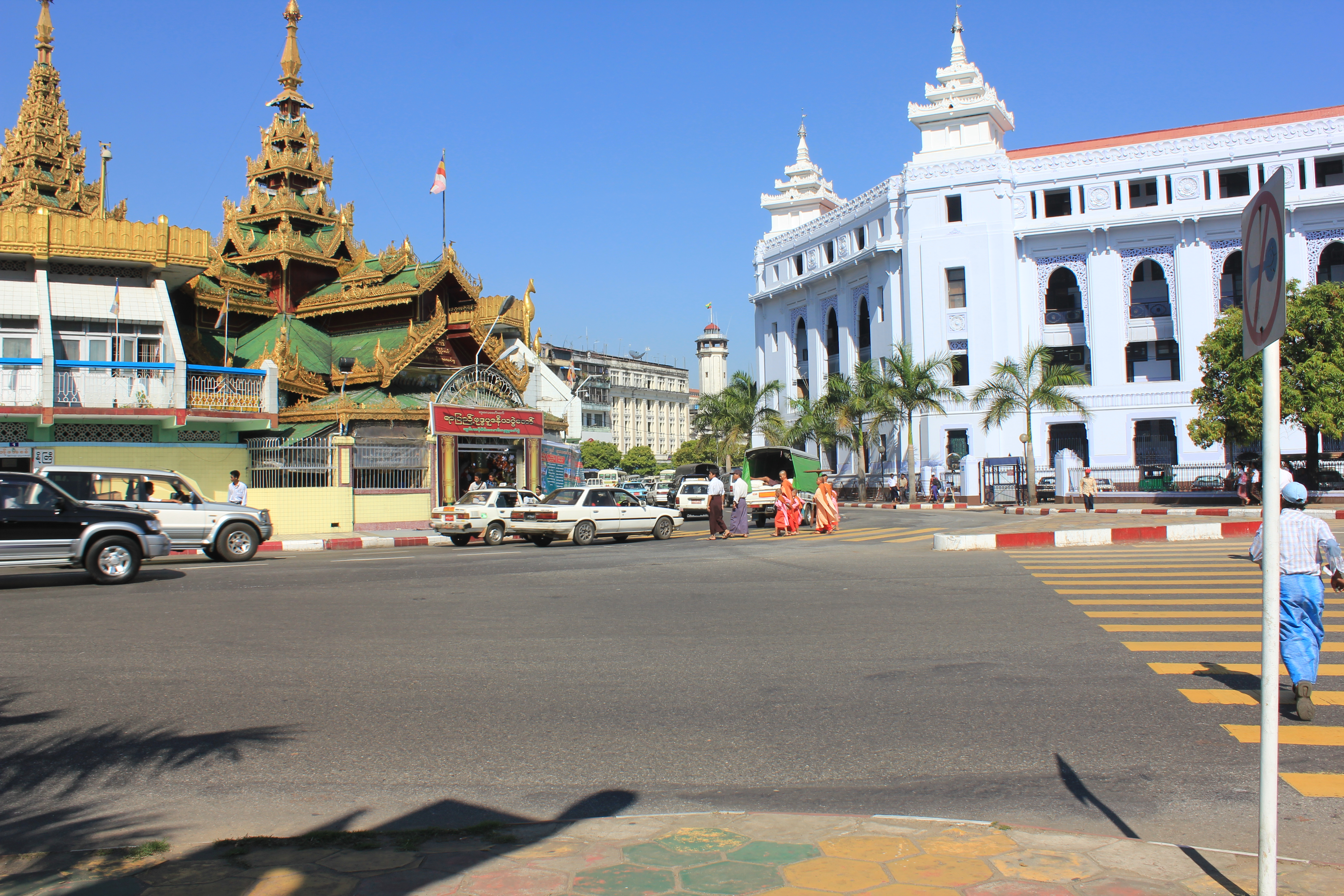 Yangon Downtown, corner of Sule Pagoda & Yangon City Hall မြန်မာဘာသာ: ဆူးလေဘုရားနှင့် မြို့တော်​ခန်းမ​ထောင့်